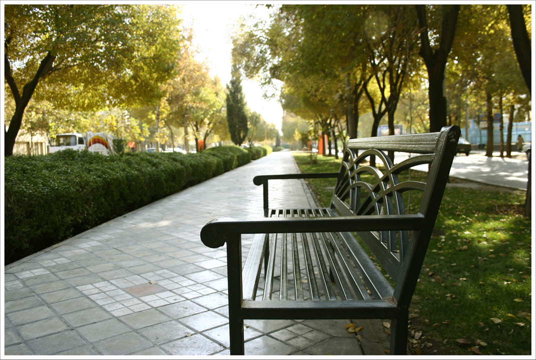 Chaharbagh Boulevard in Isfahan, Iran.